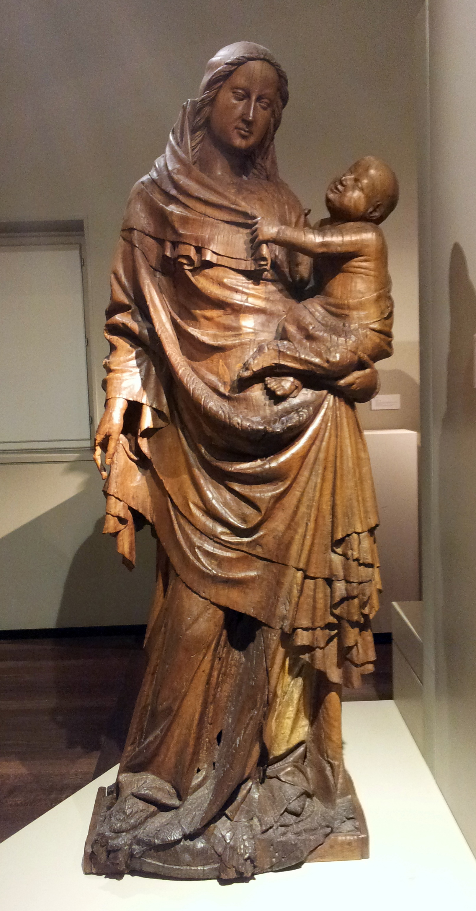 Statue of Madonna and Child (wallnut wood, ca 1380-1400), Museum Grand Curtius, Liège, Belgium.